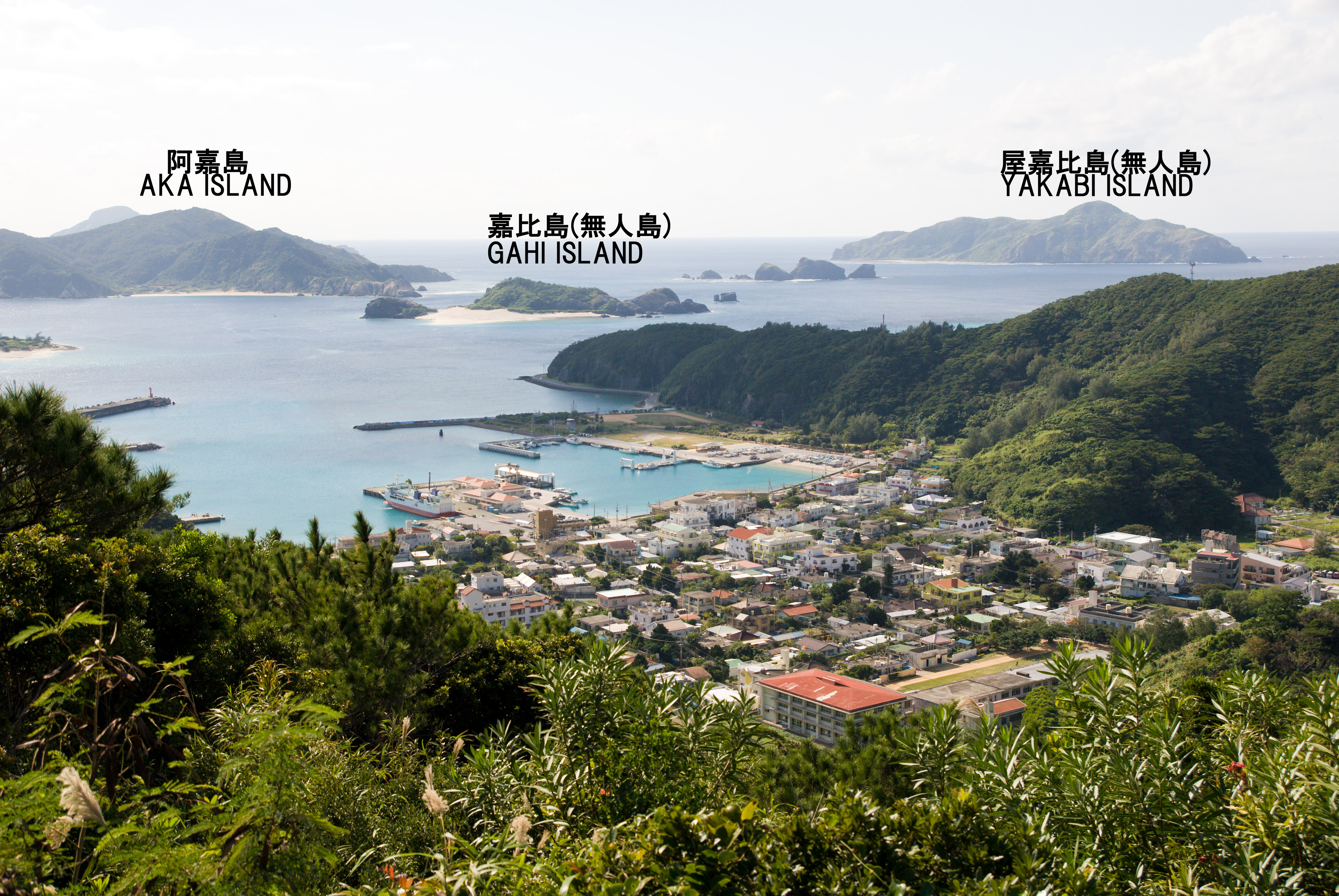 This is a view from the "Takatuki View place" on the Zamami island.